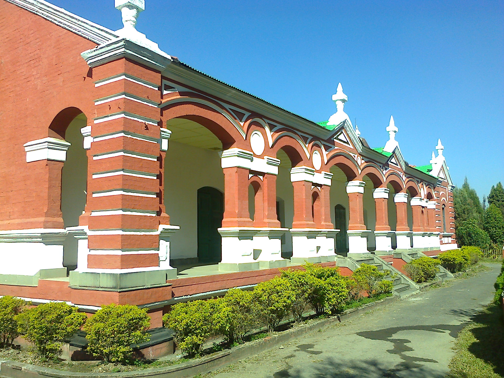 Kangla Museum Building